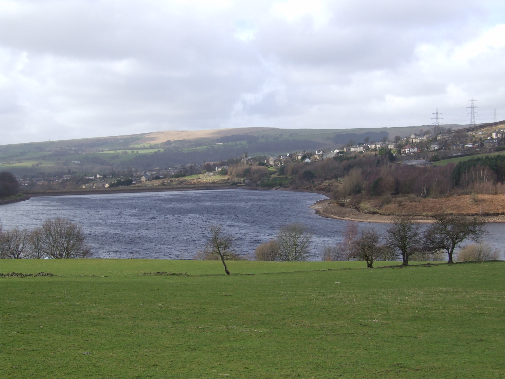 Longdendale in Derbyshire is the valley of the River Etherow. The Longdendale Chain is a series orf reservoirs built to provide drinking water forManchester Tintwistle over the Bottoms reservoir, with Lees Hill in the distance. - OpenStreetMap(Info)